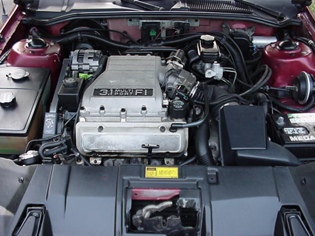 A GM V6 60 degree 3.1 Liter engine in a 1990 Chevrolet Beretta